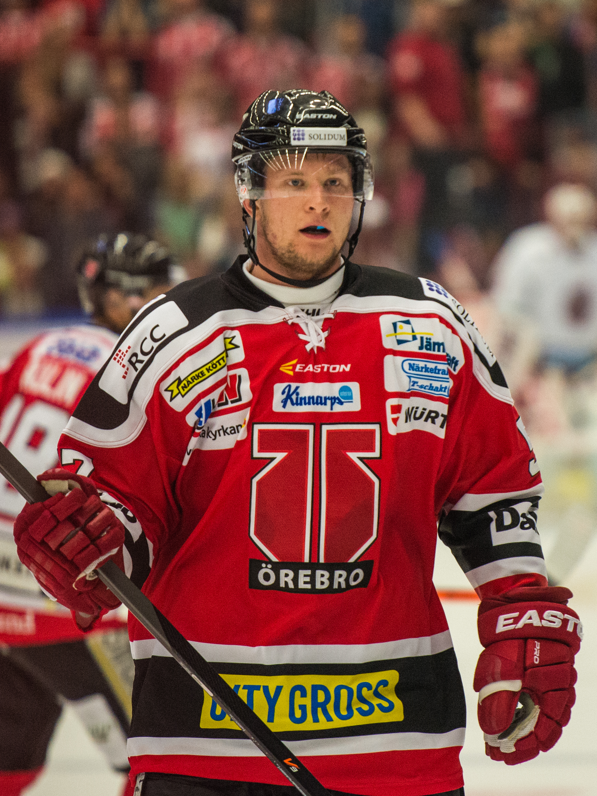 Johan Motin playing for Örebro HK in SHL (Sweden's highest league) against MODO Hockey in Behrn Arena 2013-10-05.